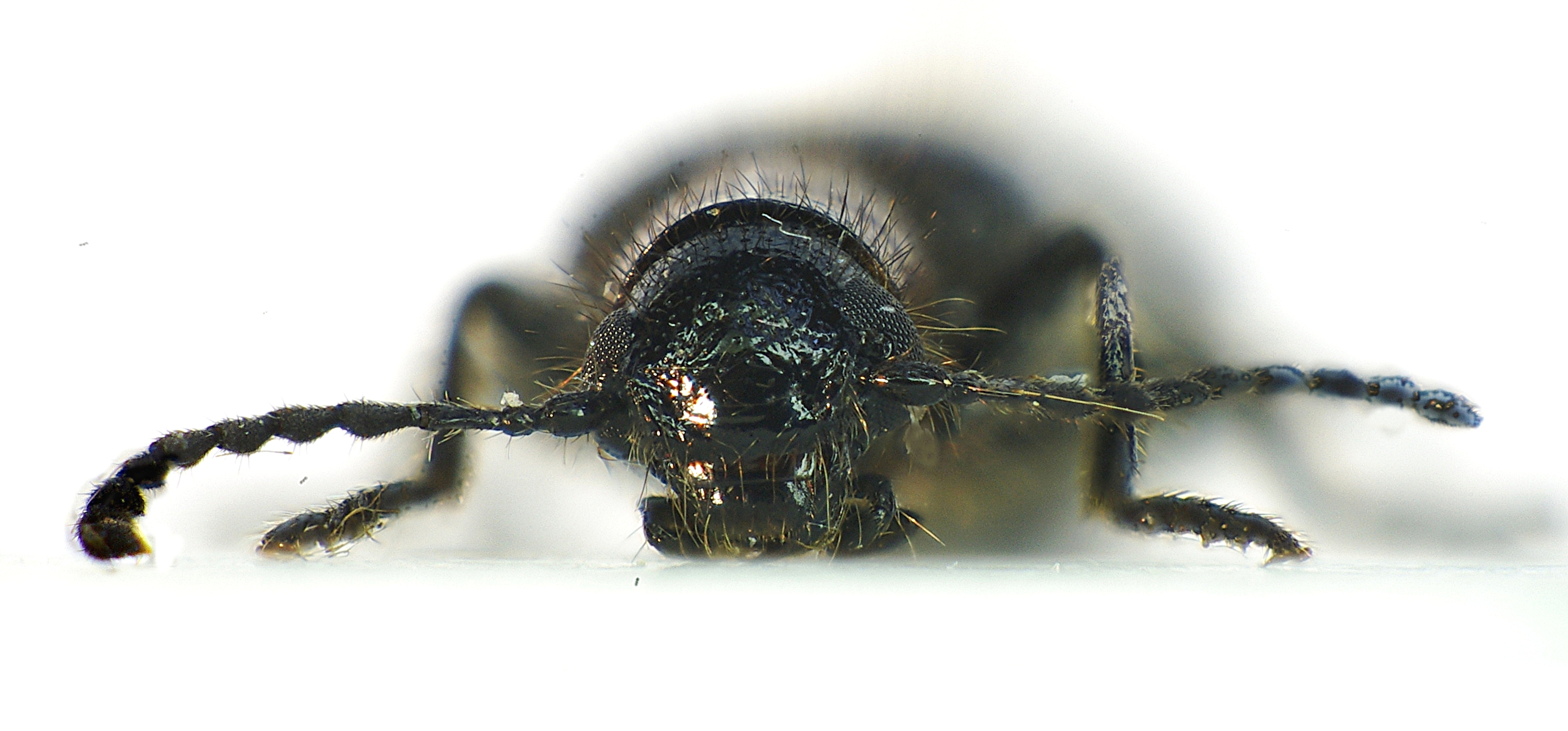 Front of Tillus elongatus